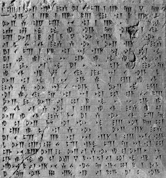 Darius Elamite inscription south wall in persepolis